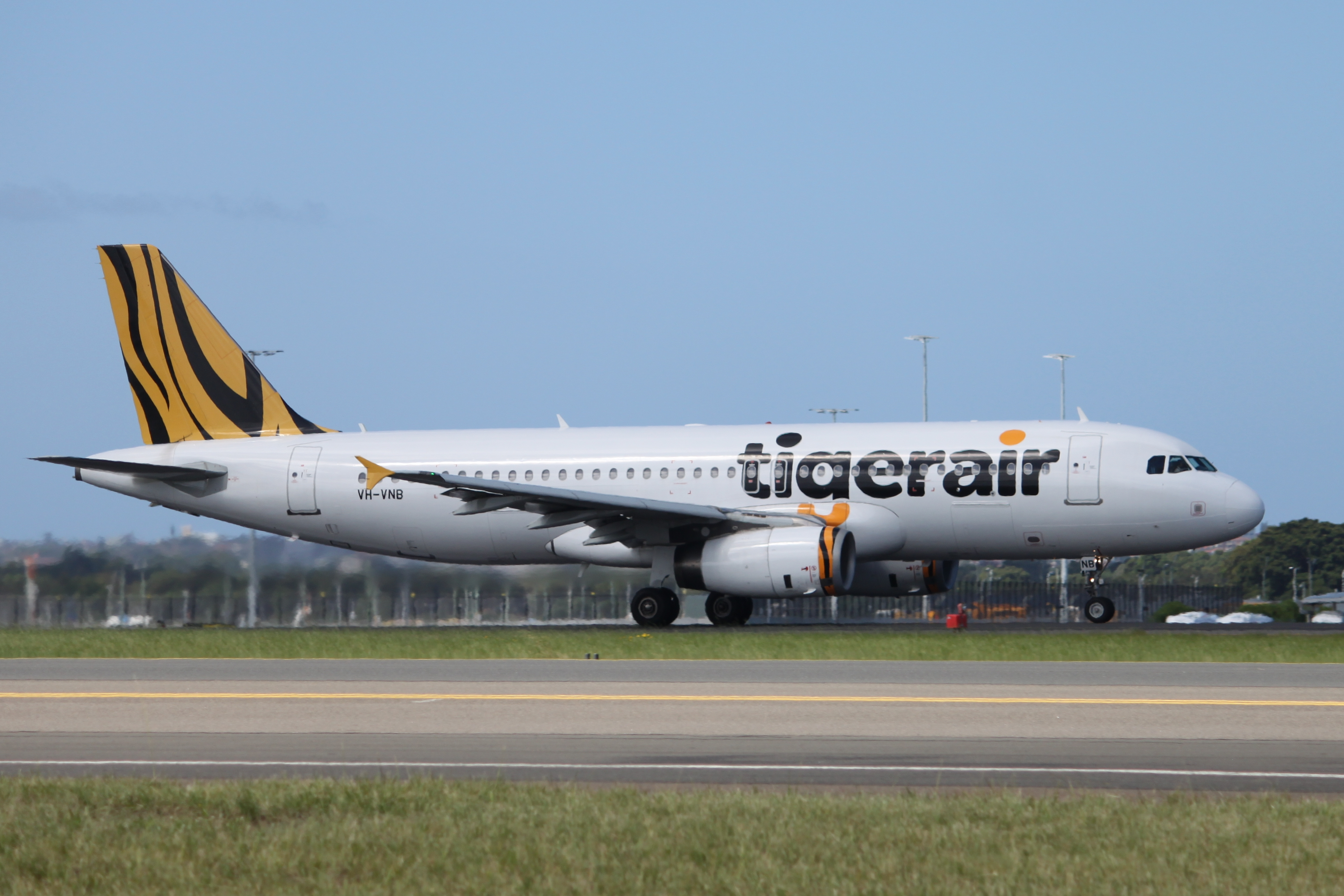 Kingsford Smith Airport, Sydney